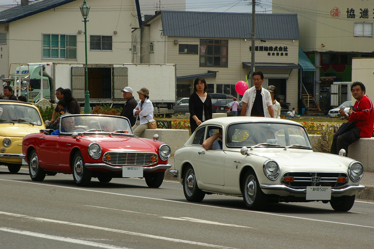 Honda S800 & S600, Northern Load Car festival in Wakkanai city.